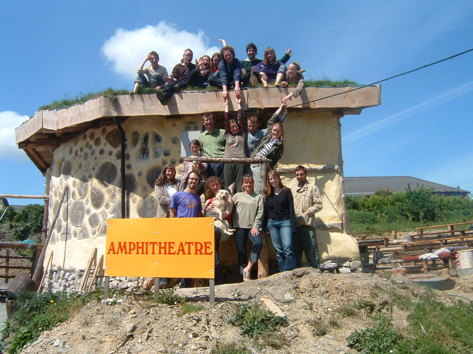 With Practical Sustainability students in front of the Kinsale College amphitheatre, June 2015.